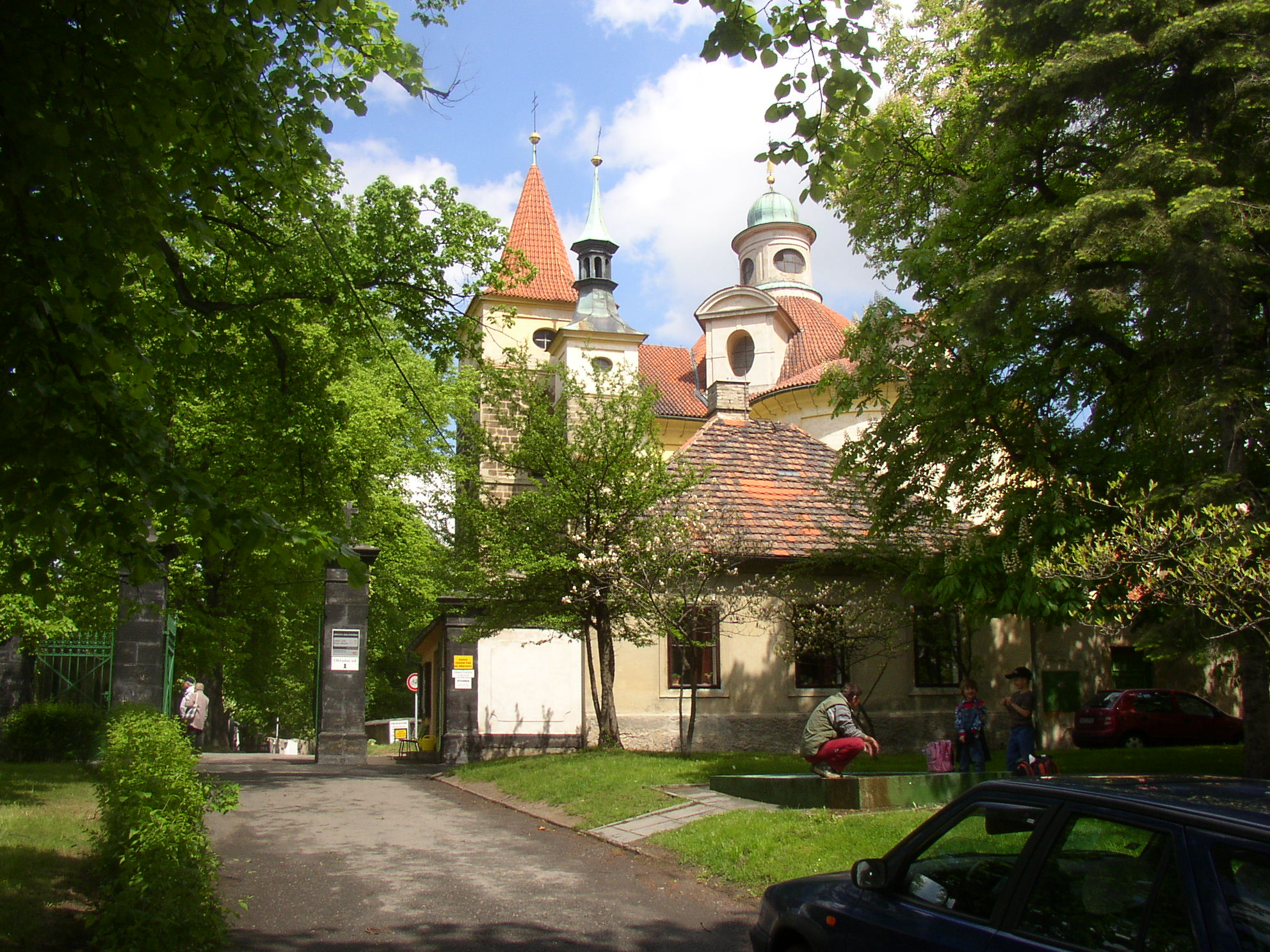 Holy Trinity Church in Slaný, Czech Republic. The building from late 16th century is a part of monastery of the Discalced Carmelites.